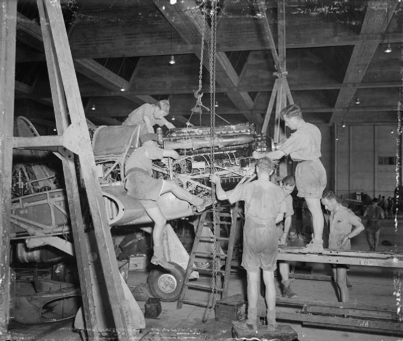 Royal Air Force Operations in the Middle East and North Africa, 1939-1943 RAF fitters installing an overhauled and tested Rolls Royce Merlin engine in a Hawker Hurricane at No. 144 Maintenance Unit, Maison Blanche, Algeria.